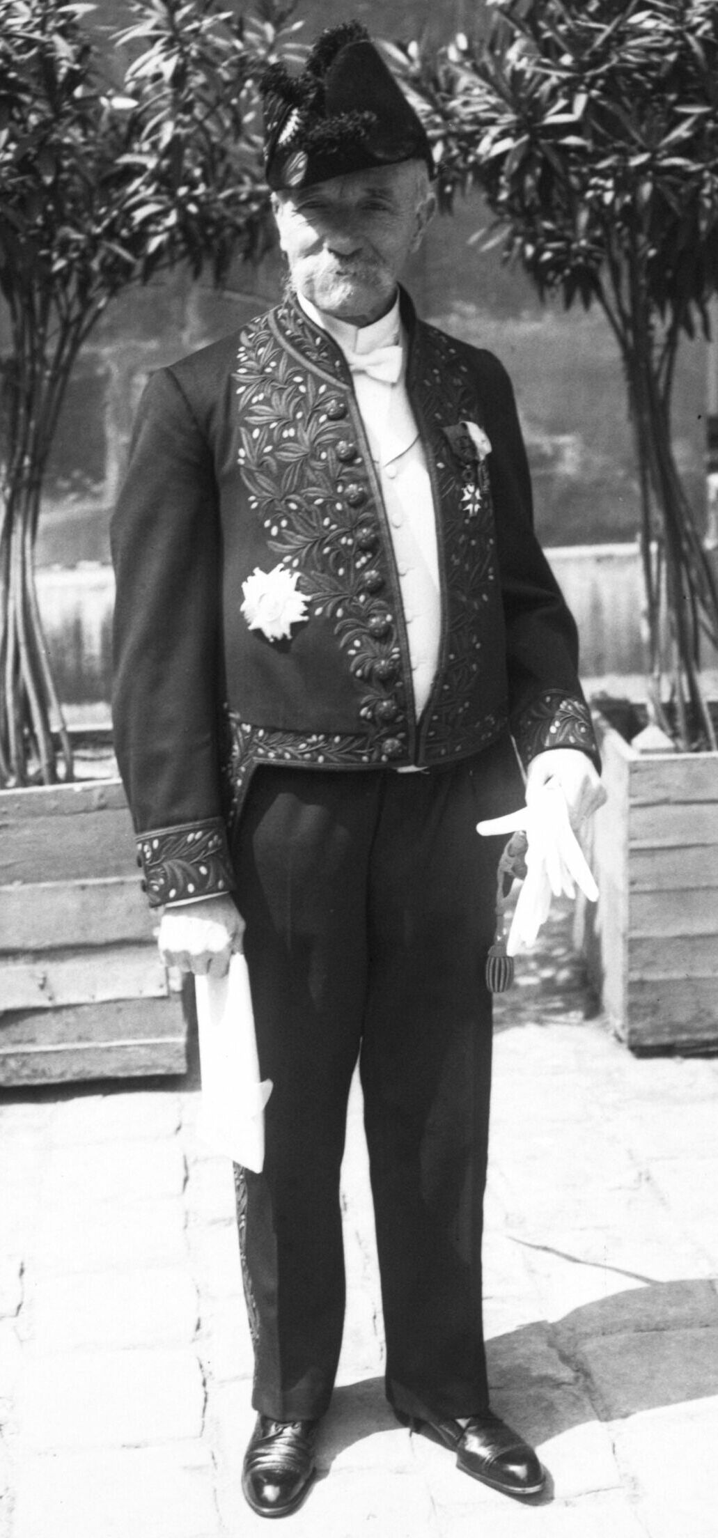 French general and politician Hippolyte Langlois (1839-1912) on the day of his reception at the Académie française